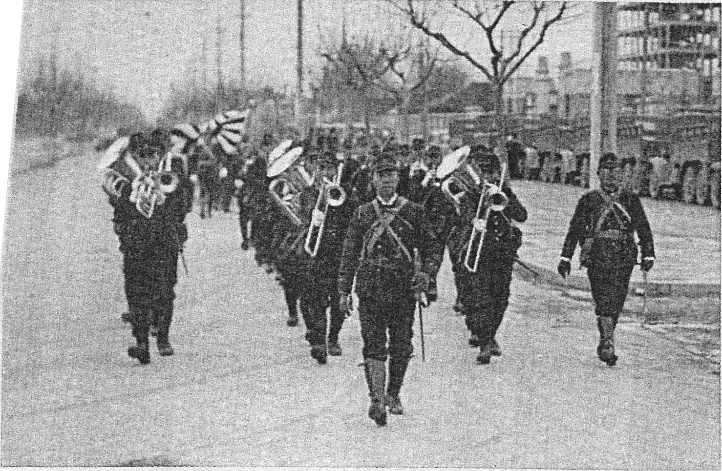 Japanese Navy brass band marches on the Zhongshan Road in Nanking.(December 17, 1937)